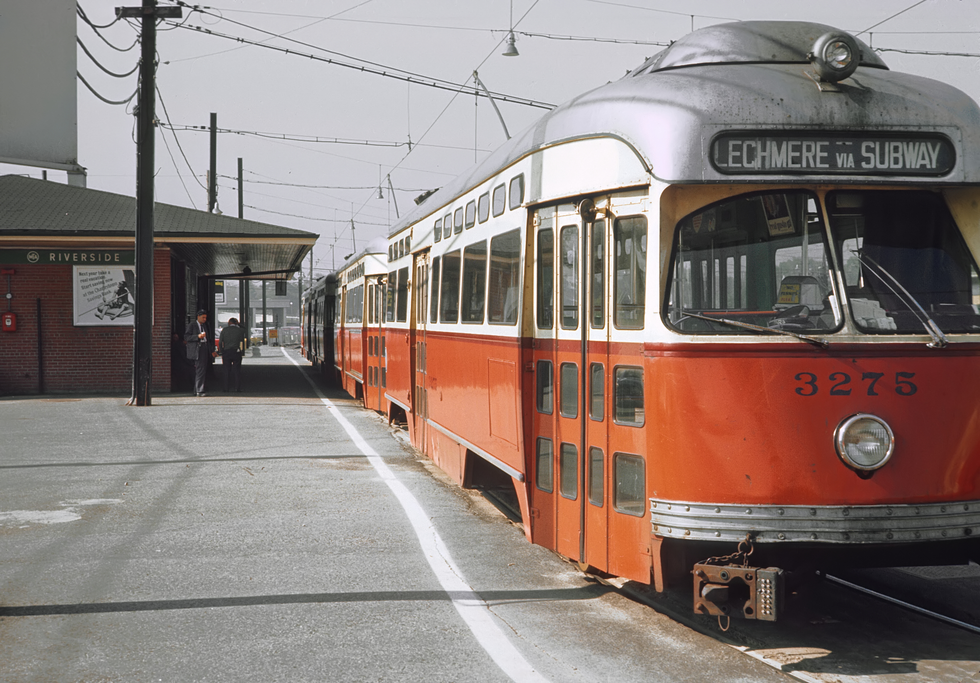 PCC streetcar #3275 at Riverside Terminal in September 1965